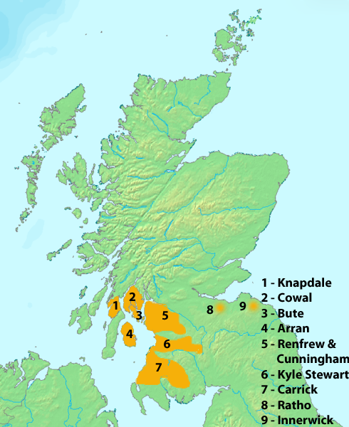 Based on text information in Early Stewart Kings by Stephen Boardman, p. 282 and some information in map in A Companion to Britain in the Later Middle Ages by S. H. Rigby